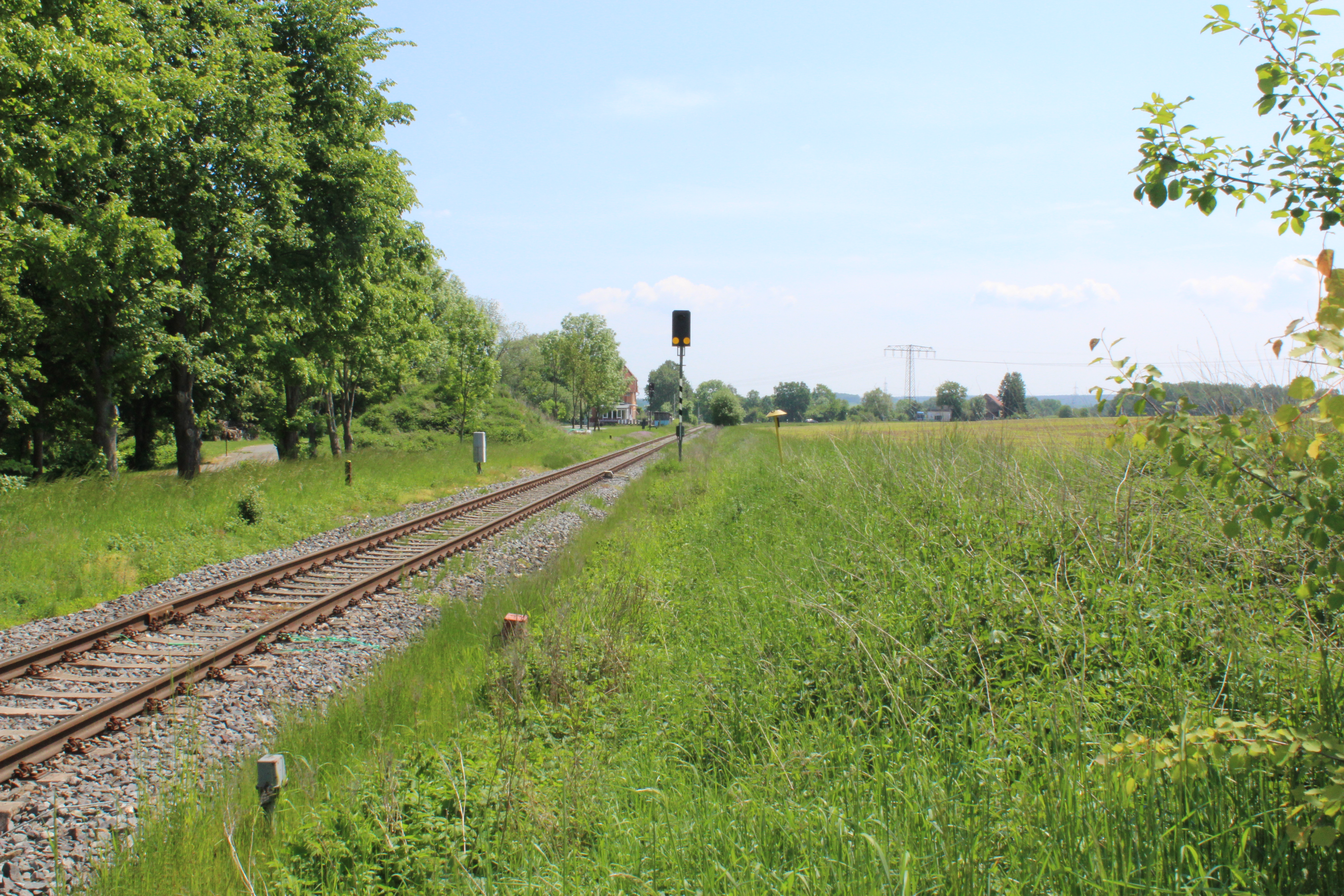 train station Großebersdorf (Harth-Pöllnitz)